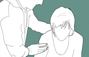 Panic-attack treatment: a person having a panic attack being calmed and reassured by another person.